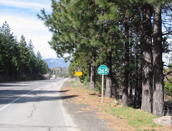 California State Route 265, SR 265 shield, Weed, California. CA 265 trailblazer.